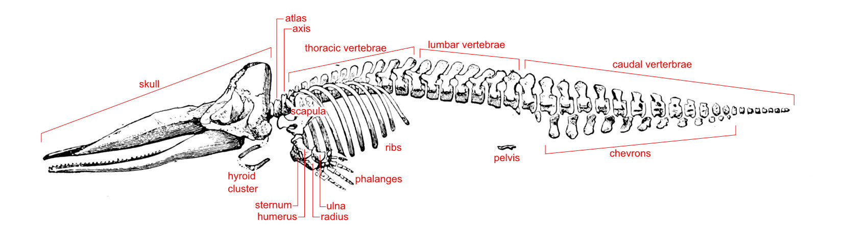 Sperm whale skeleton with labels.